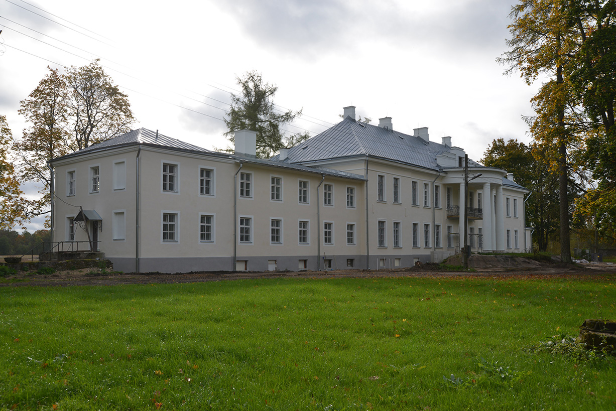 Kernu mõisa peahoone tagumine külg